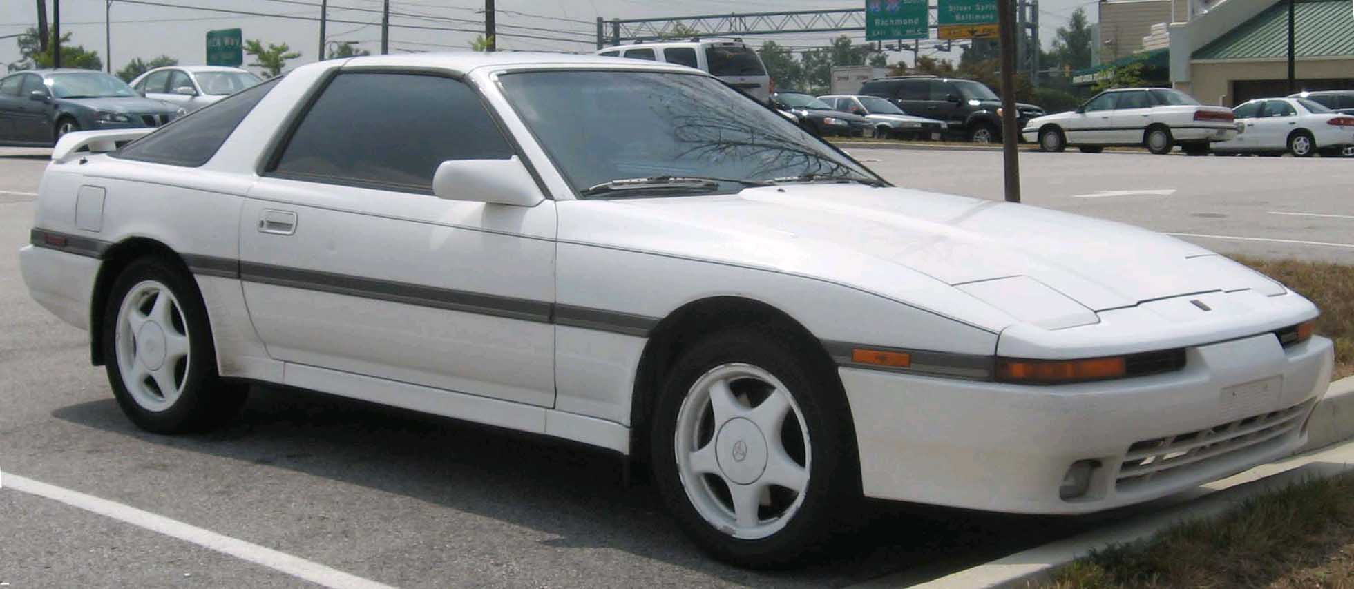 1989-1992 Toyota Supra photographed in College Park, Maryland, USA.